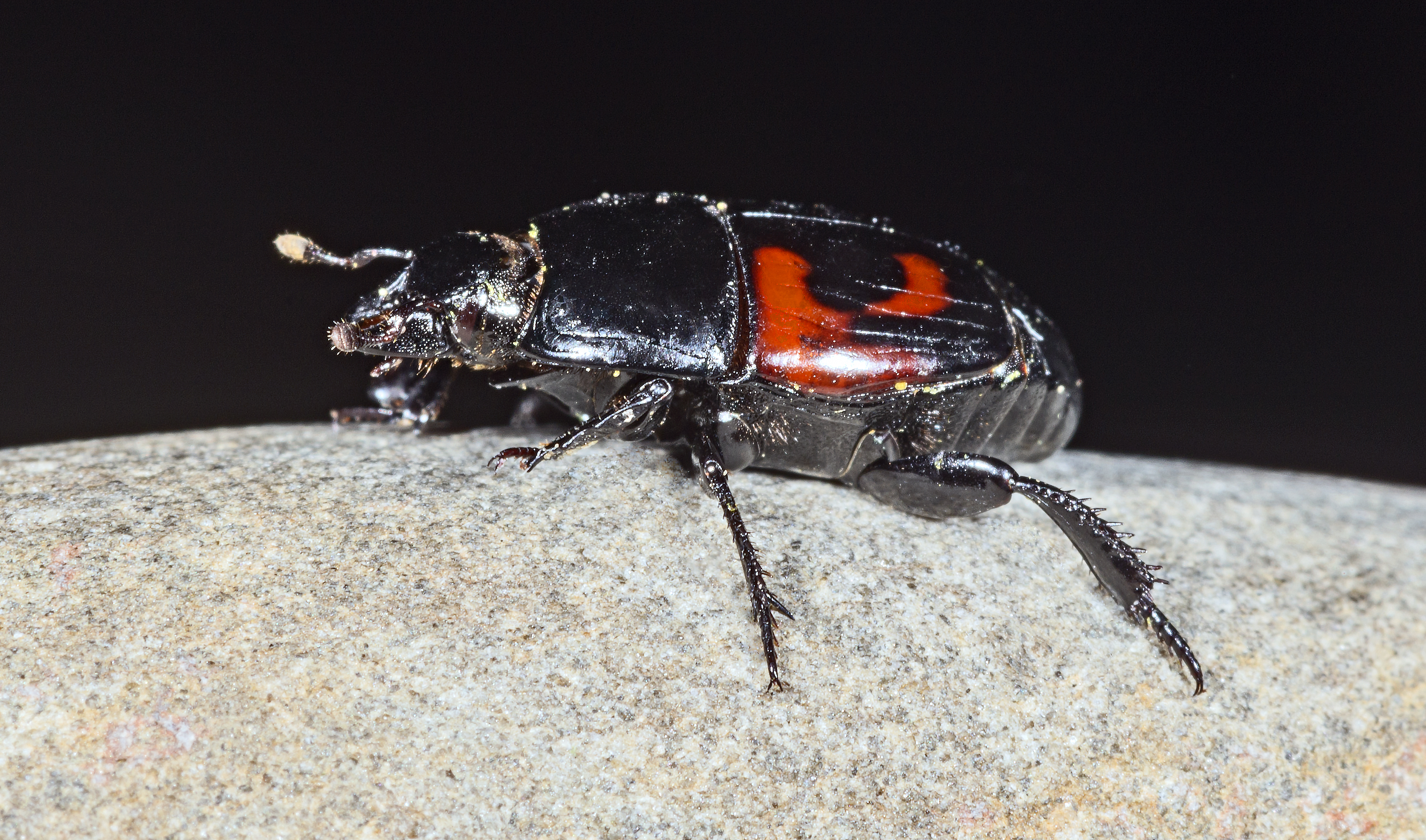 Hister quadrimaculatus. Side view.